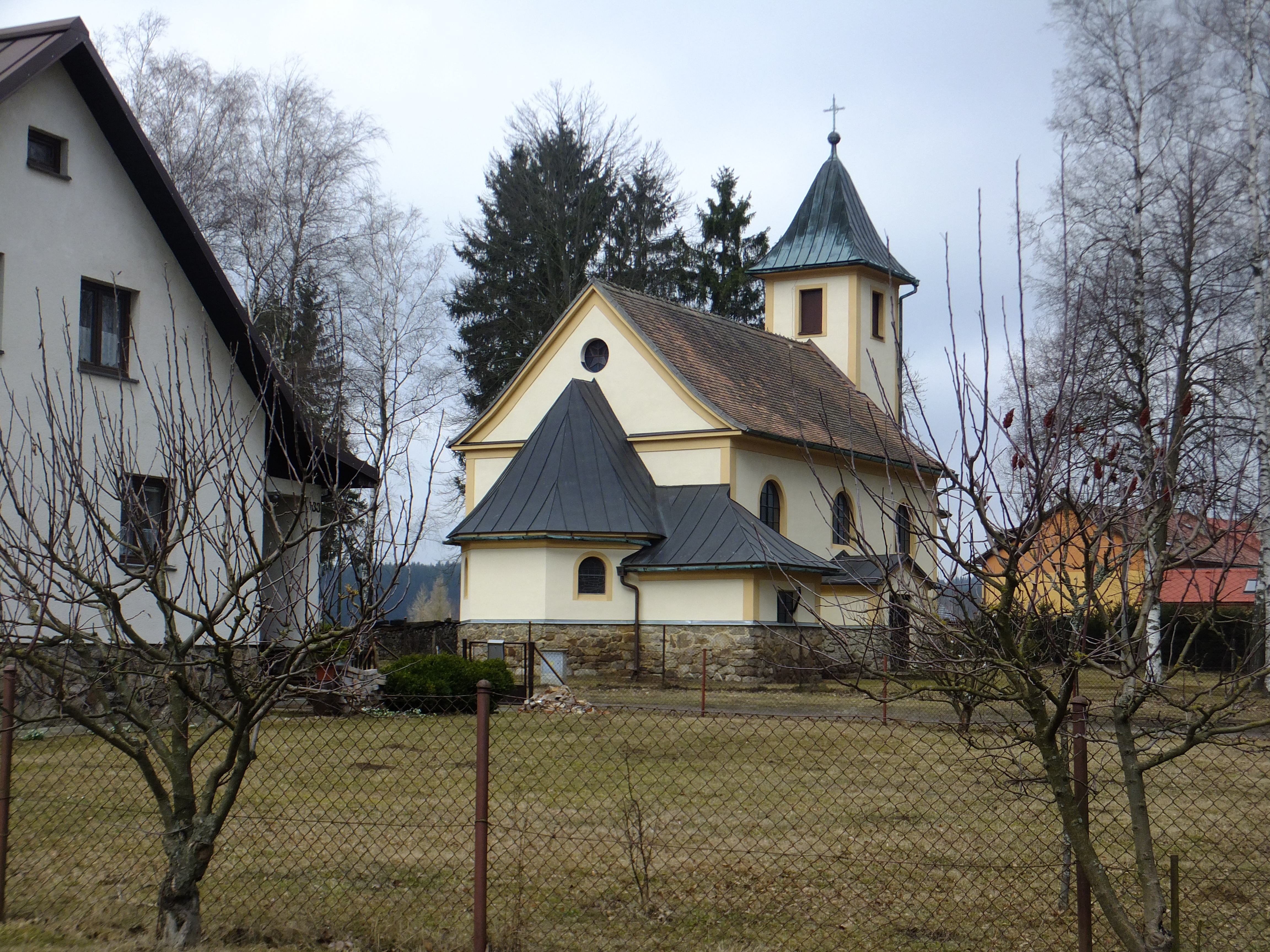 Saint Mary of Help church in Křižánky